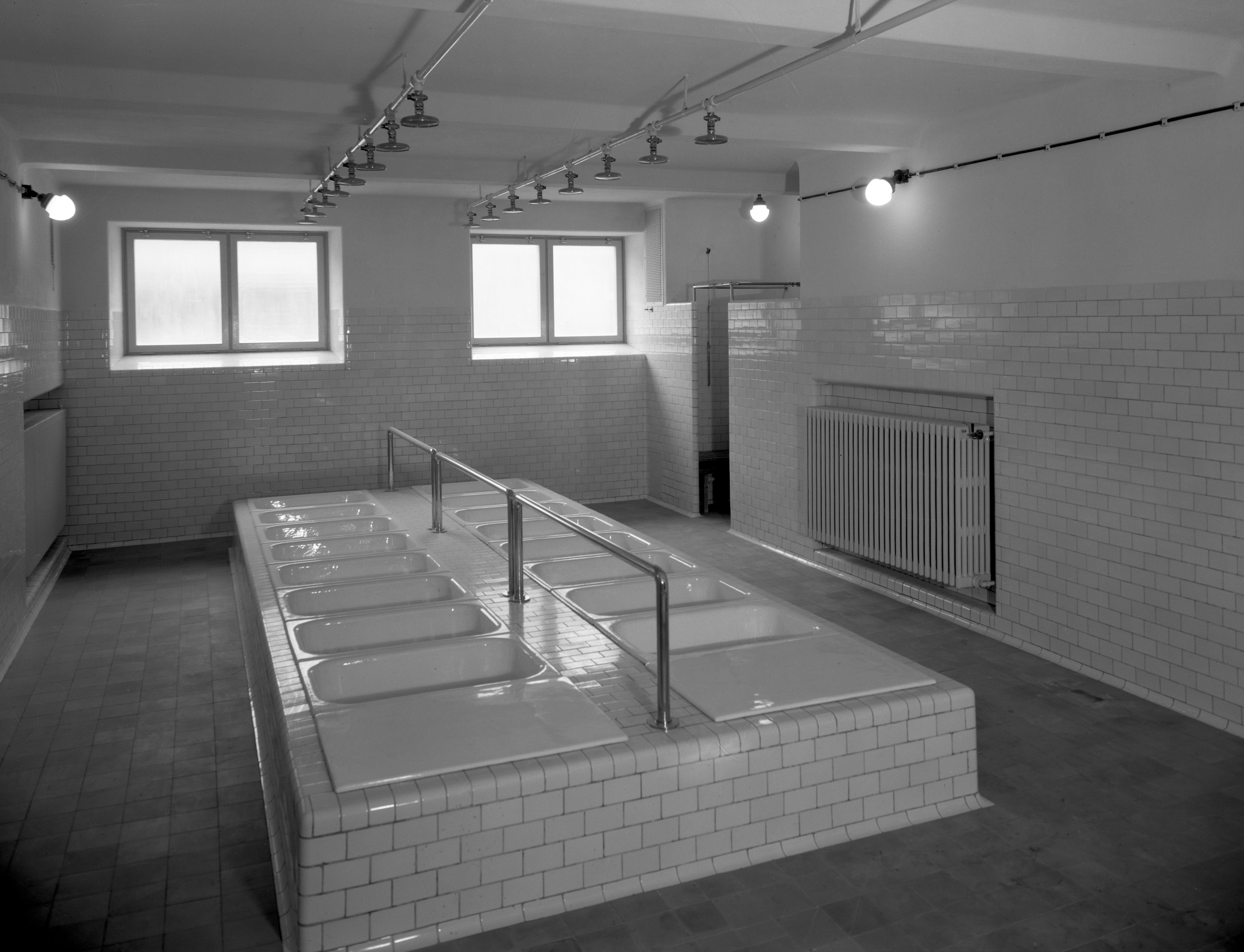 Avdelning för skolbad med kar i Södra skolan, senare Tingvallaskolan, på en bild tagen 1931. Denna typ av skolbad fanns kvar i åtminstone en av Karlstads skolor in på 60-talet. Bilden togs för Wennbergs rörfirmas räkning.